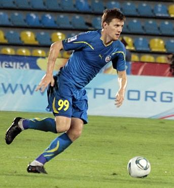 Oleg Ivanov playing for FC Rostov.